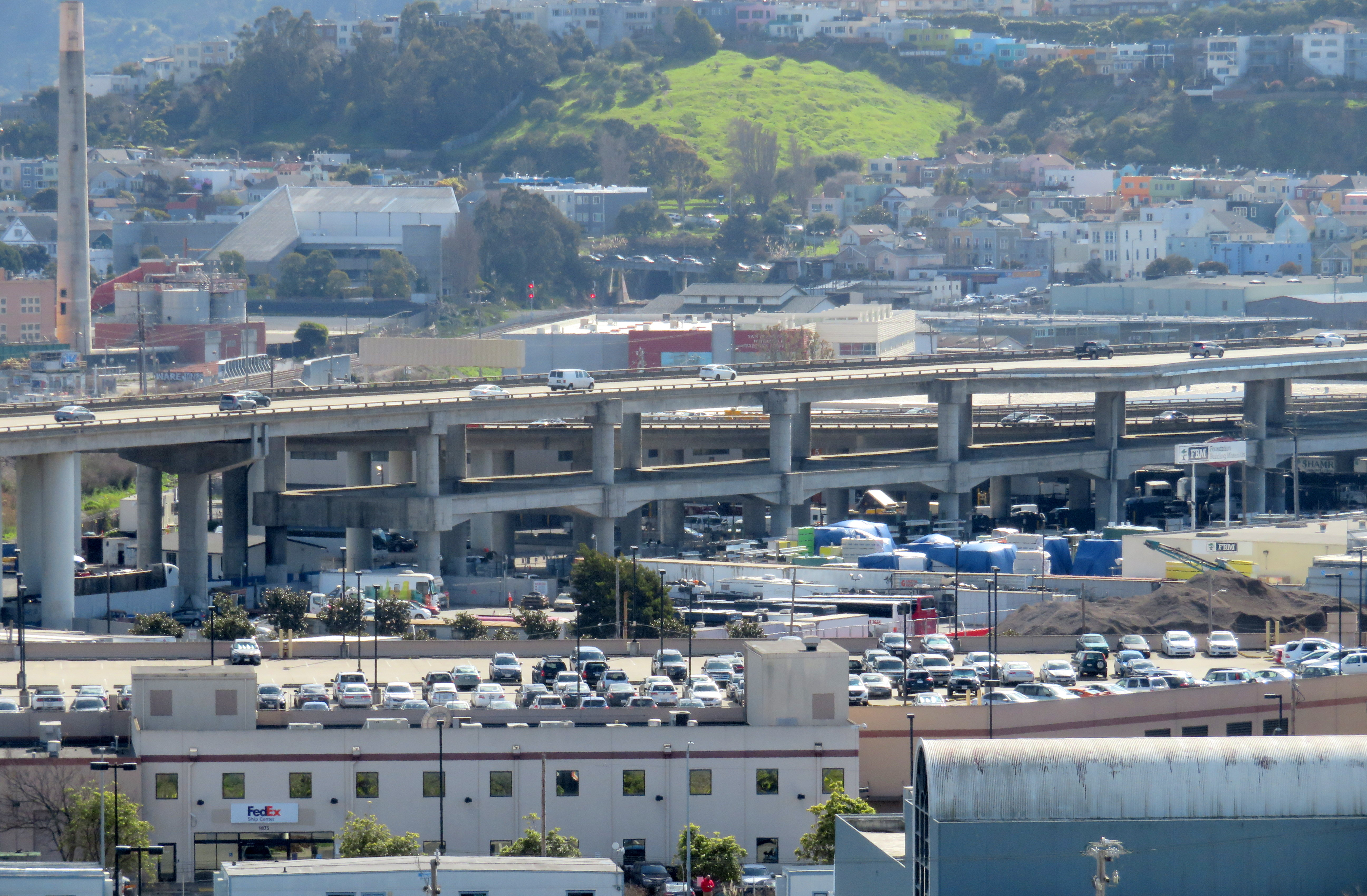 Stub ramp on the I-280 viaduct - originally intended for the Hunters Point Freeway and/or Southern Crossing, neither of which were built - viewed from Potrero Hill in February 2019